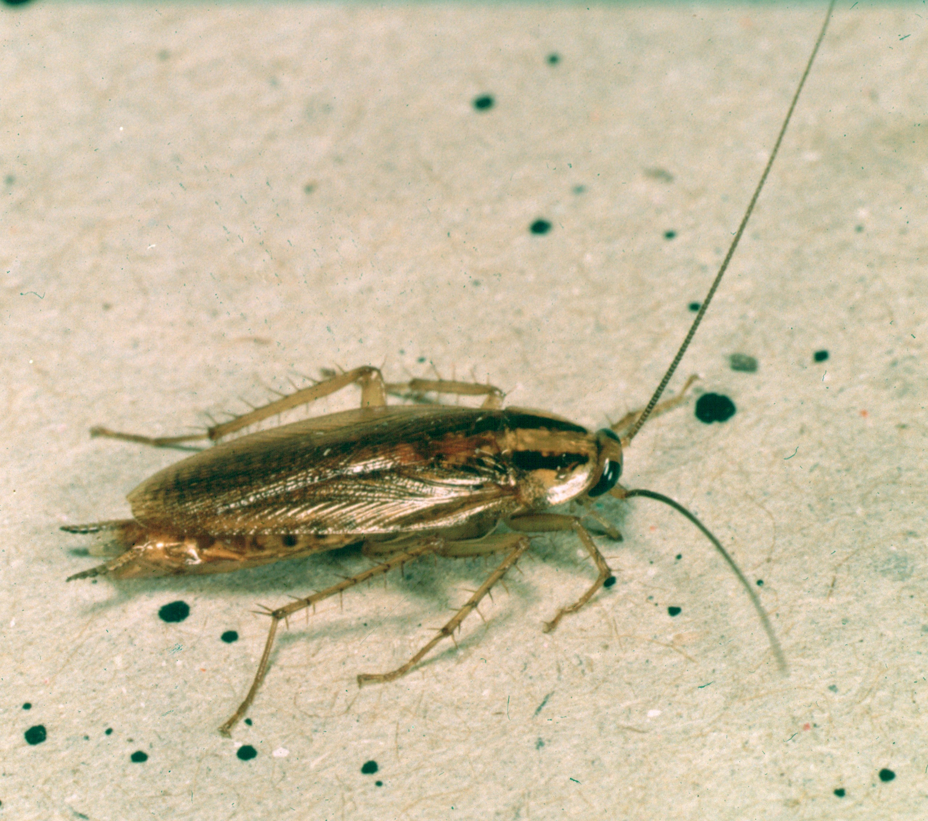 Blattella germanica Linnaeus Photographer: Clemson University - USDA Cooperative Extension Slide Series, , United States Contact: Pat Zungoli, Clemson University Descriptor: Adult(s) Image taken in: United States